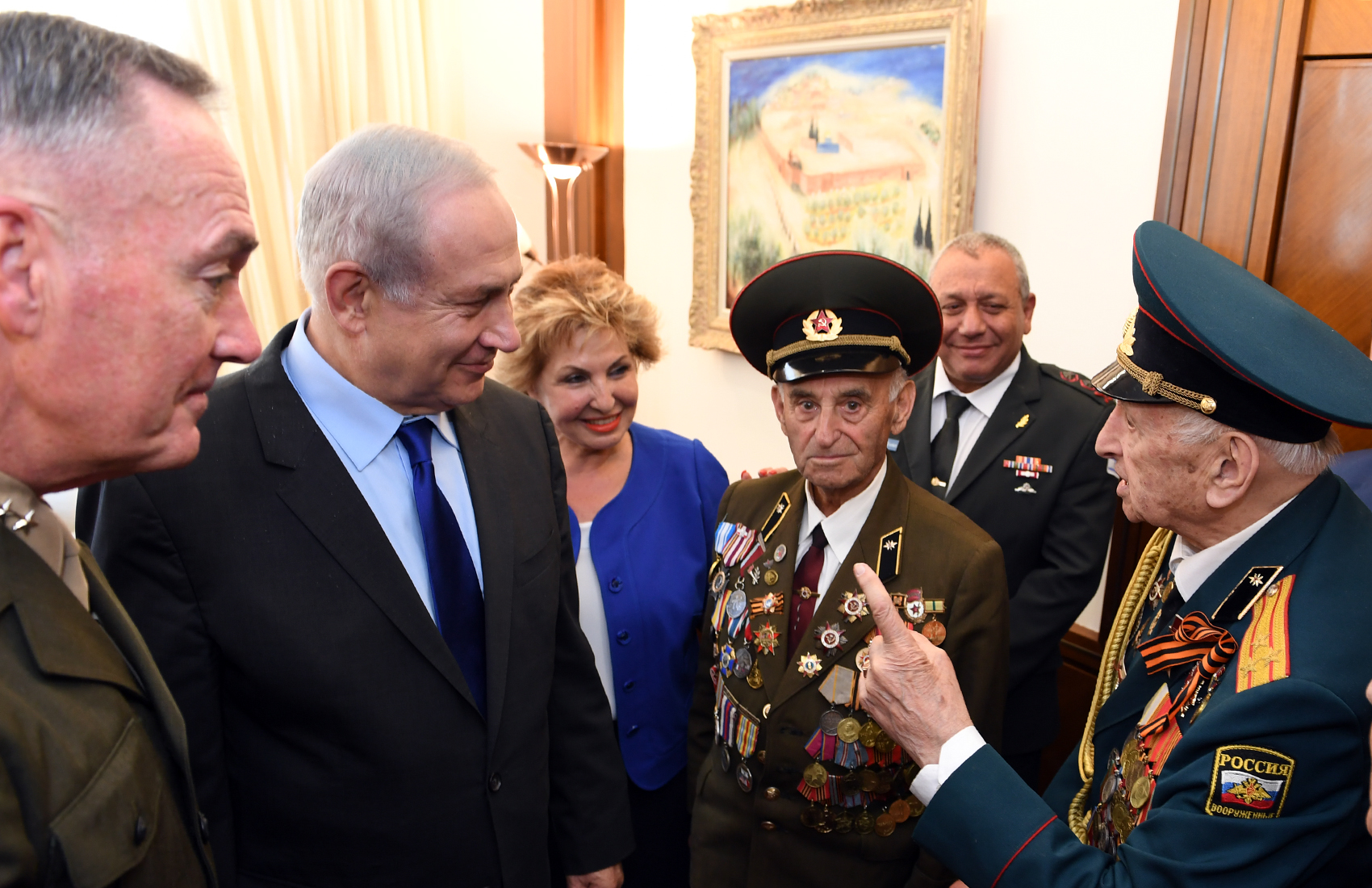 Chairman of the Joint Chiefs of Staff, General Joseph Dunford, meets with Israeli Prime Minister Benjamin Netanyahu in his office in Jerusalem, and then tours Yad Vashem Holocaust Museum and lays a wreath at the Hall of Remembrance in memory of the victims of the Holocaust.